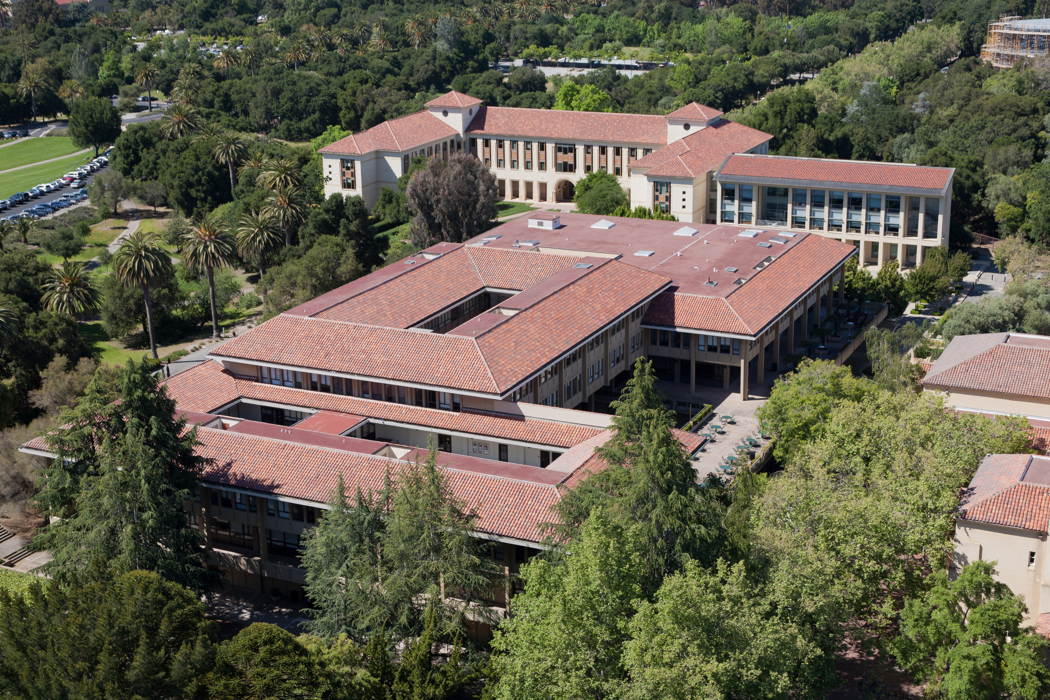 Graduate School of Business, as seen from Hoover Tower in Stanford University, Stanford, California.